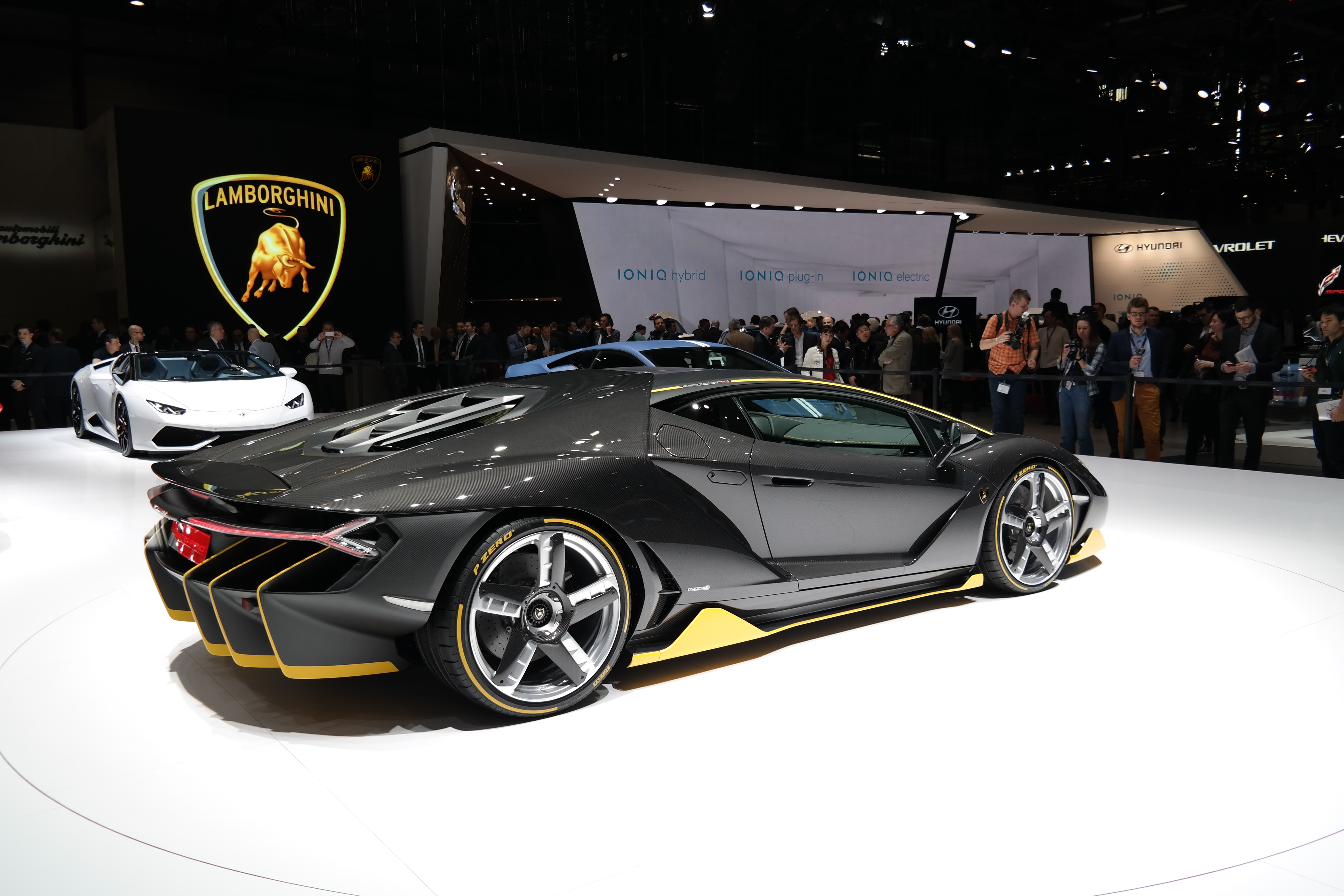 Geneva Motor Show 2016 (photo taken on the first press day)